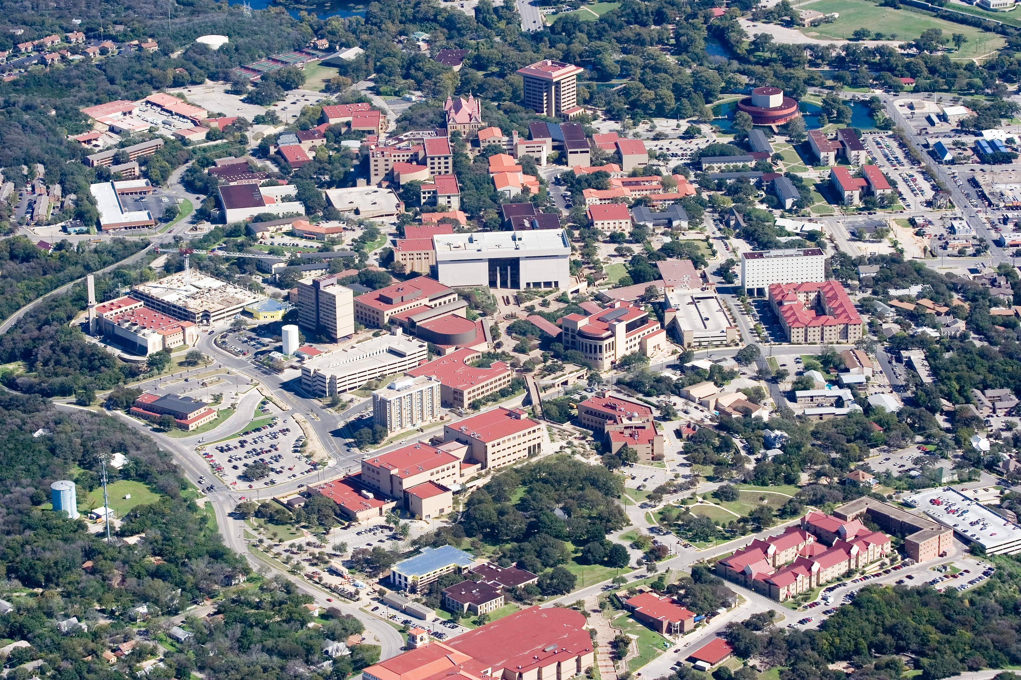 Texas State University from 2500 feet.